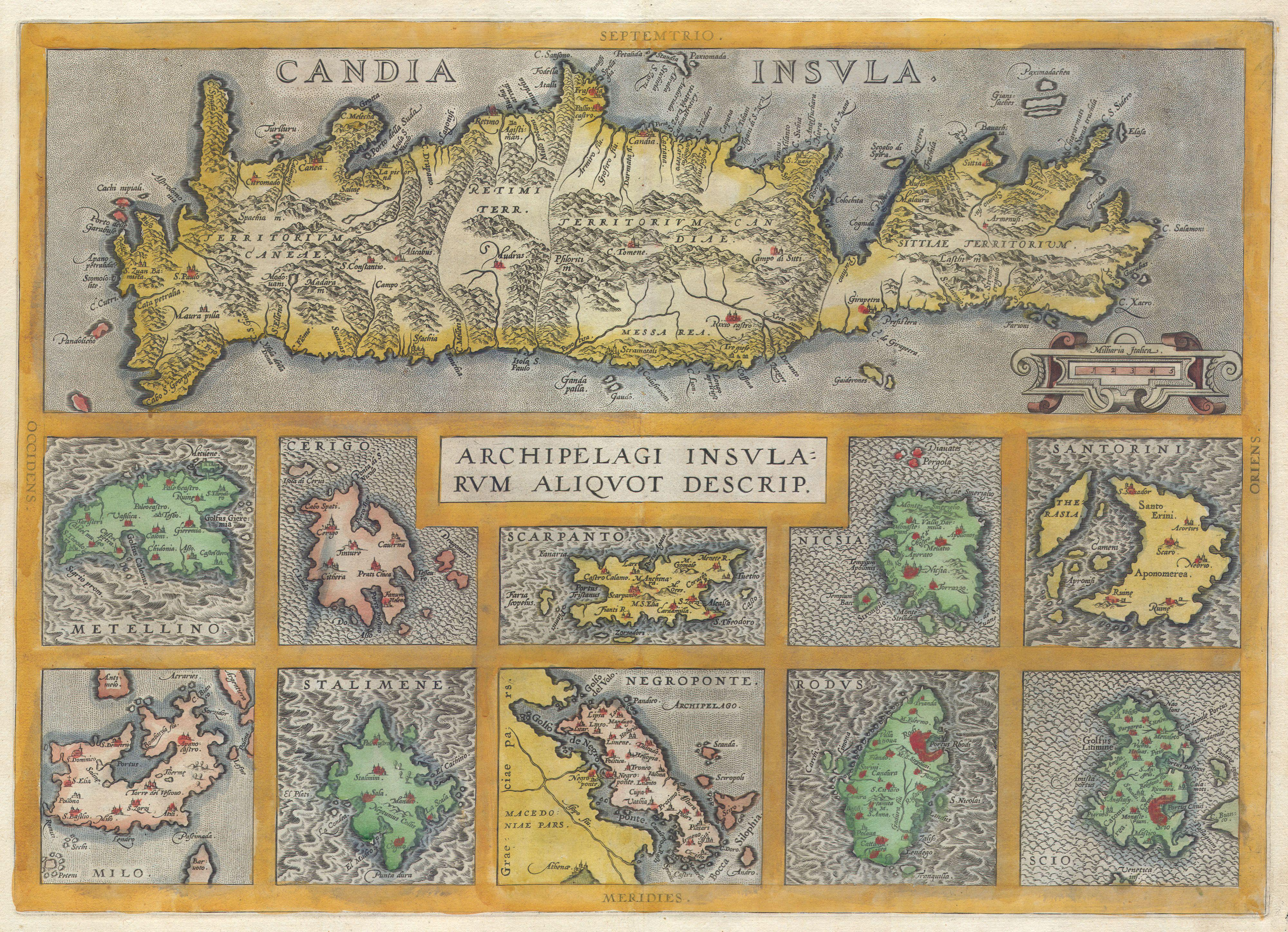 A rare and beautiful 1584 Abraham Ortelius map of Crete and ten other Greek islands: Metellino (Mitiline, Lesbos), Cerigo, Scarpanto (Karpathos), Nicsia (Naxos), Santorini, Milo, Stalimene (Limnos), Negroponte (Euboea), Rodus (Rhodes, home of the Colossus of Rhodes), and Scio (Chios). Beautiful, rich, hand color.